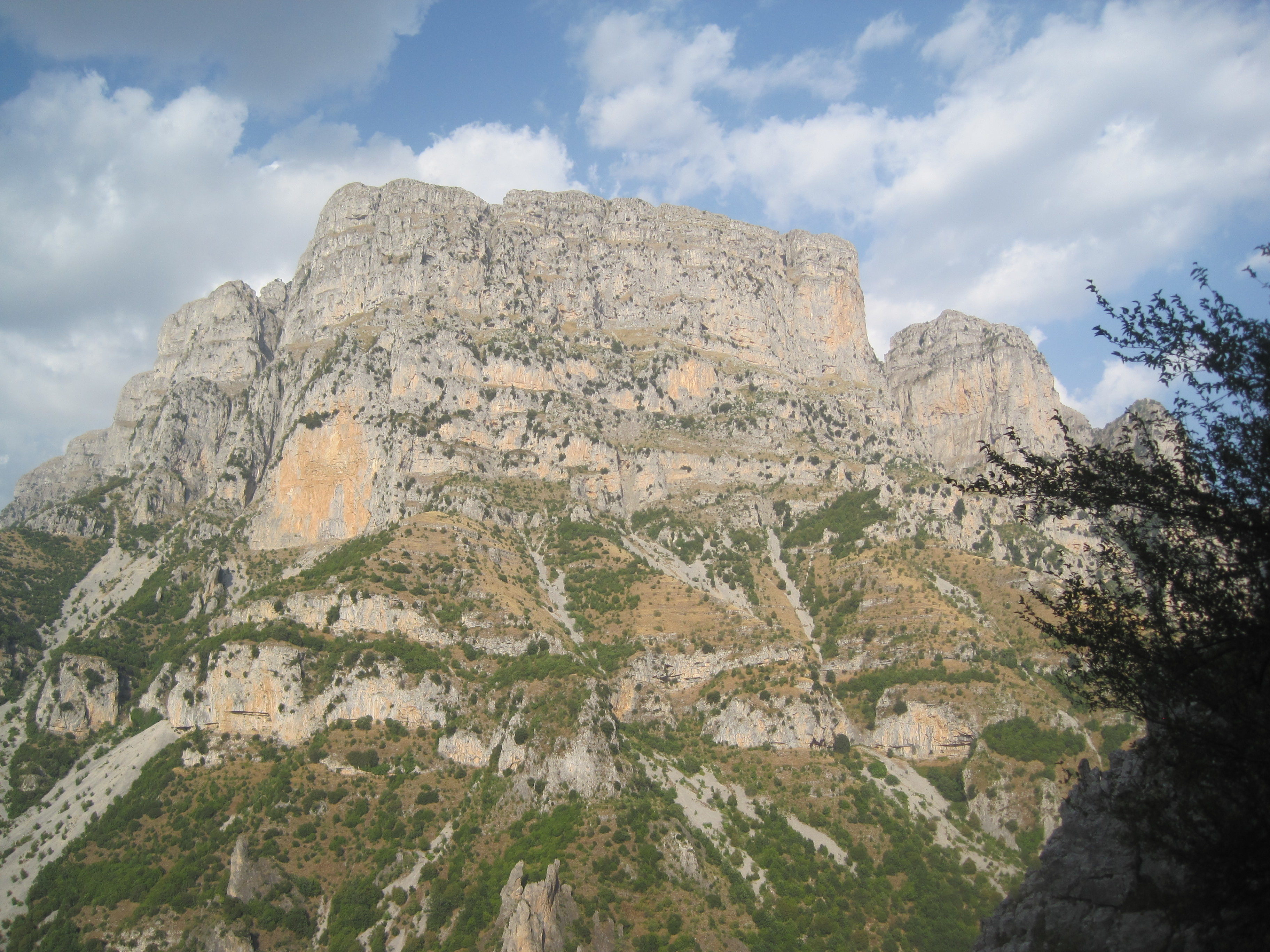 Vikos Gorge